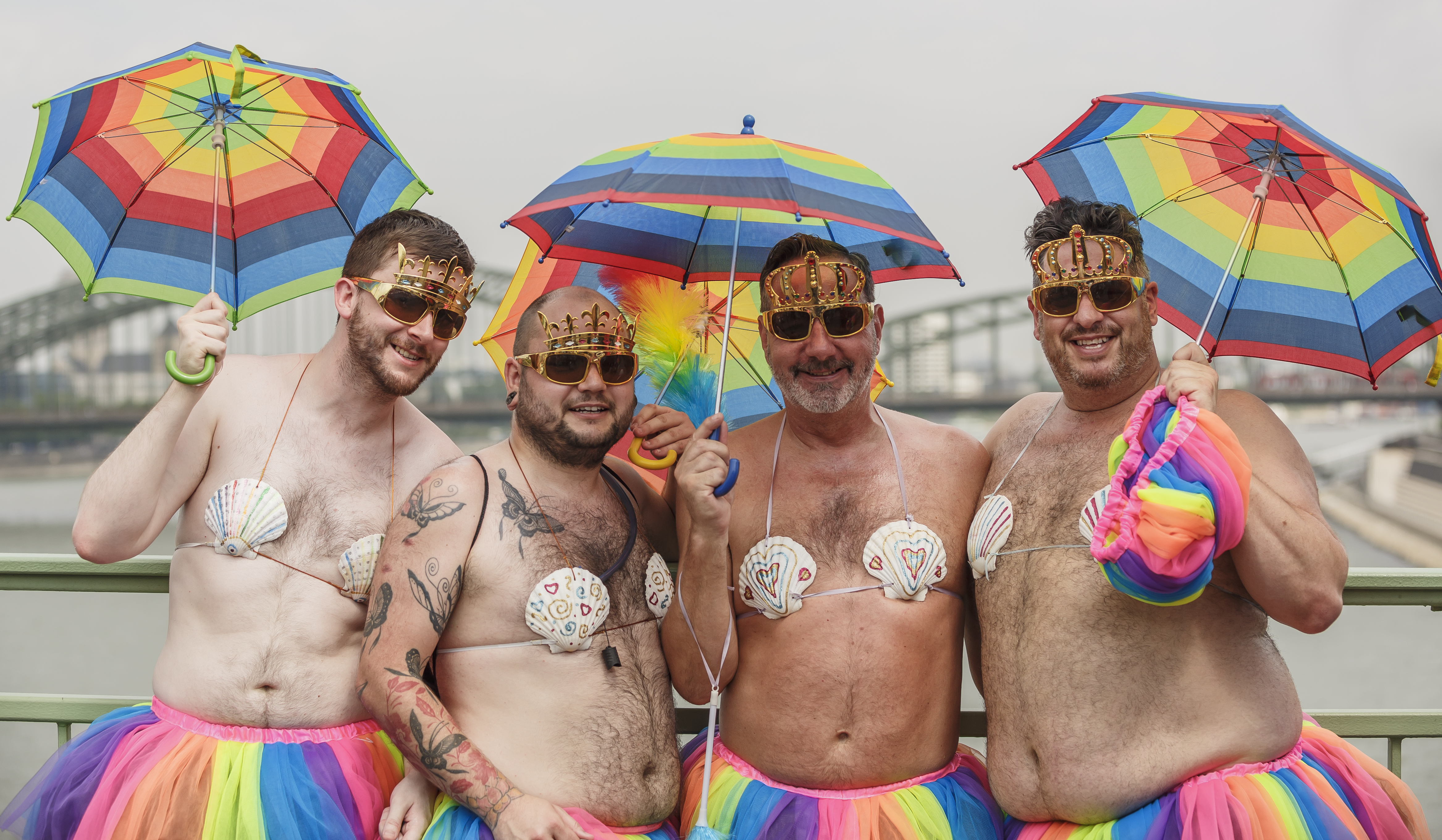 Cologne, Germany: Participant of Cologne Pride Parade 2015